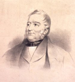 British botanist and colonial administrator James Ebenezer Bicheno (1785-1851)